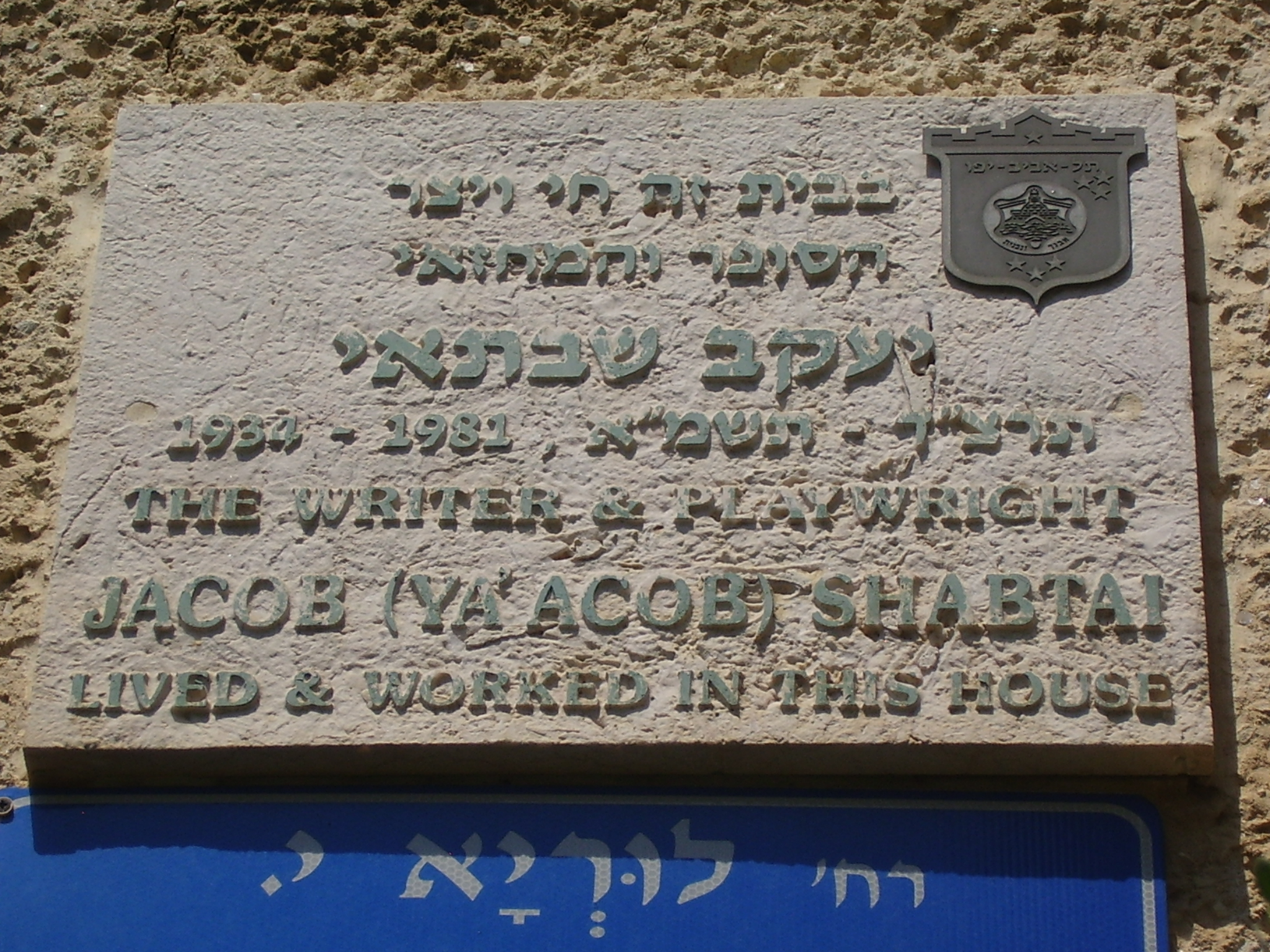 memorial plaque on the house of the novelist and playwright jacob shabtai in tel aviv לוחית זיכרון על ביתו של הסופר והמחזאי יעקב שבתאי ברח' לוריא 1 בתל אביב